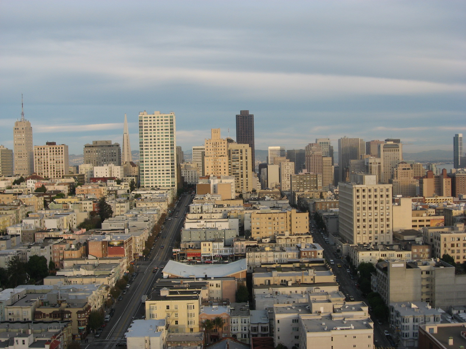 Downtown San Francisco in the late afternoon, looking east from the Holiday Inn Golden Gateway, 1500 Van Ness Avenue.